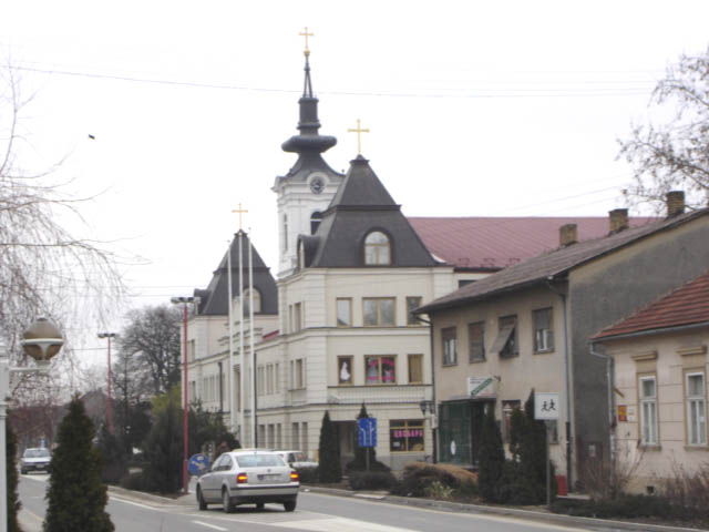 Kać /Vojvodina /Serbia - Main street and the Orthodox Church The Centre of Kać with the Svetosavski Dom.